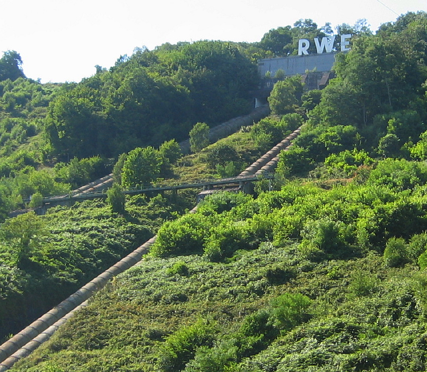 Pumped storage plant "Koepchenwerk" (old plant) at the Hengsteysee (Ruhr), Herdecke, North Rhine-Westphalia, Germany.